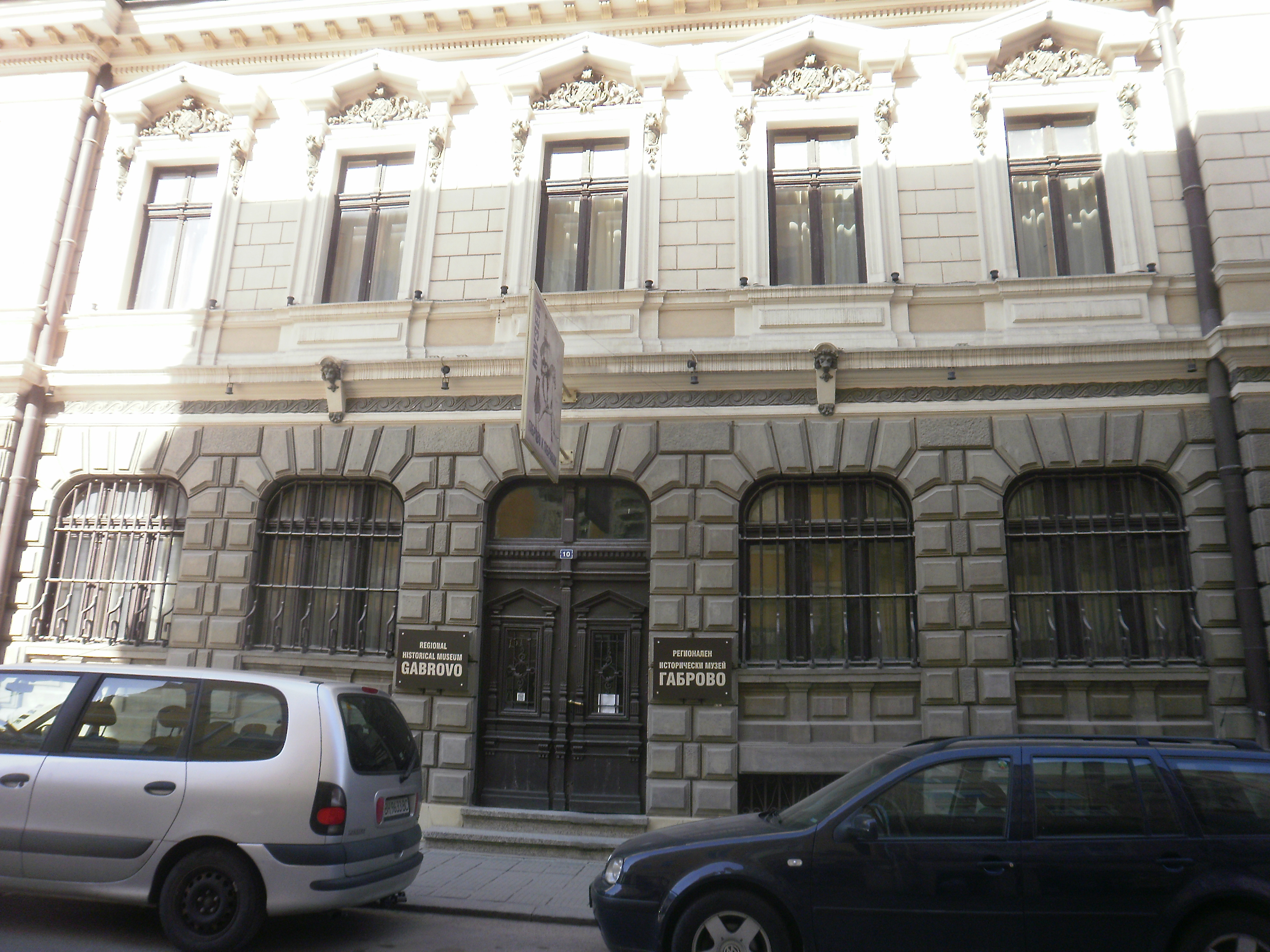 Gabrovo History Museum, Bulgaria.